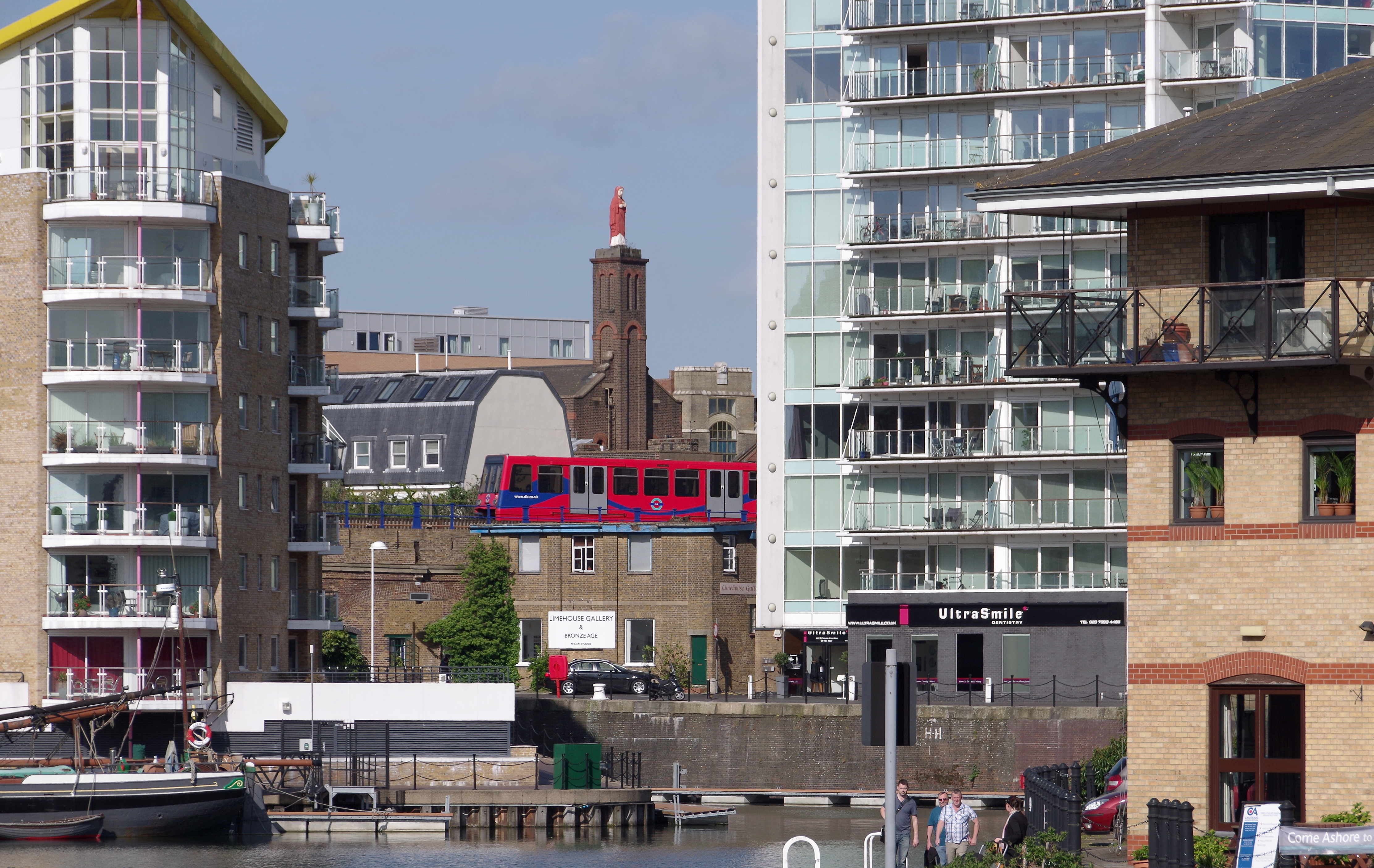 DLR B92 stock #75 passes Limehouse Basin.